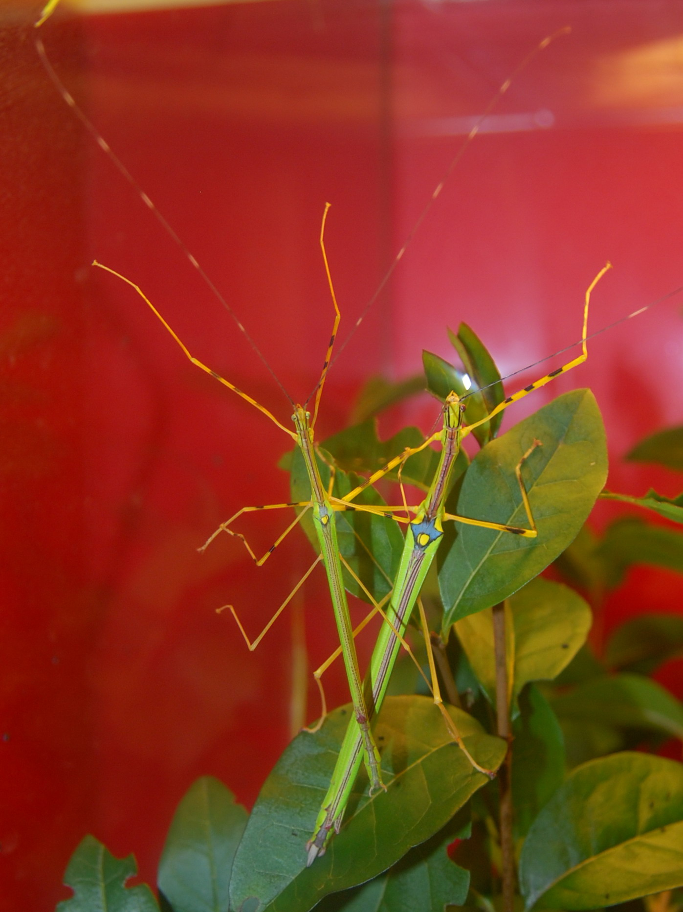 Necroscia annulipes pair